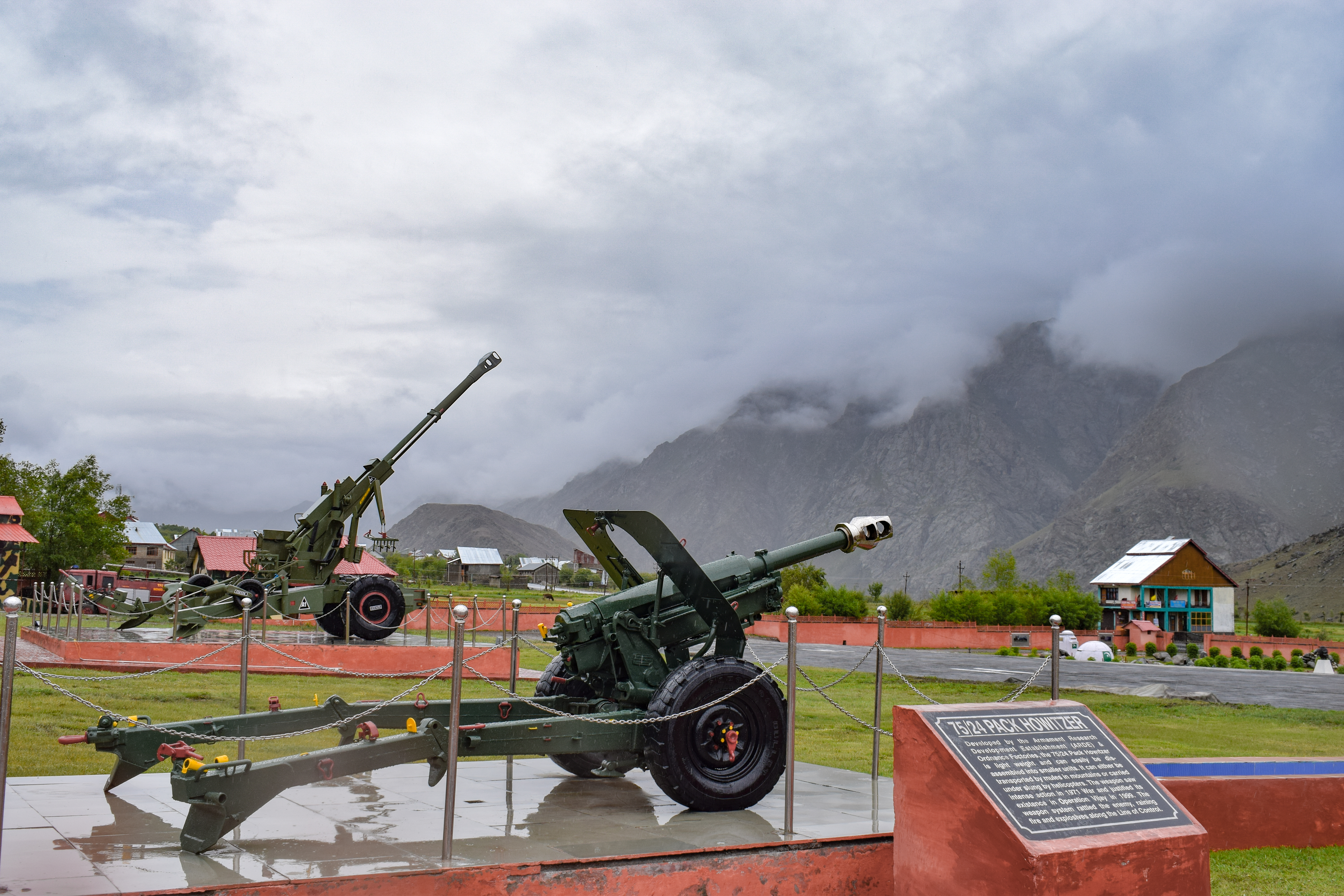 Weapons Used in operation Vijay, kept at Kargil War Memorial, Drass